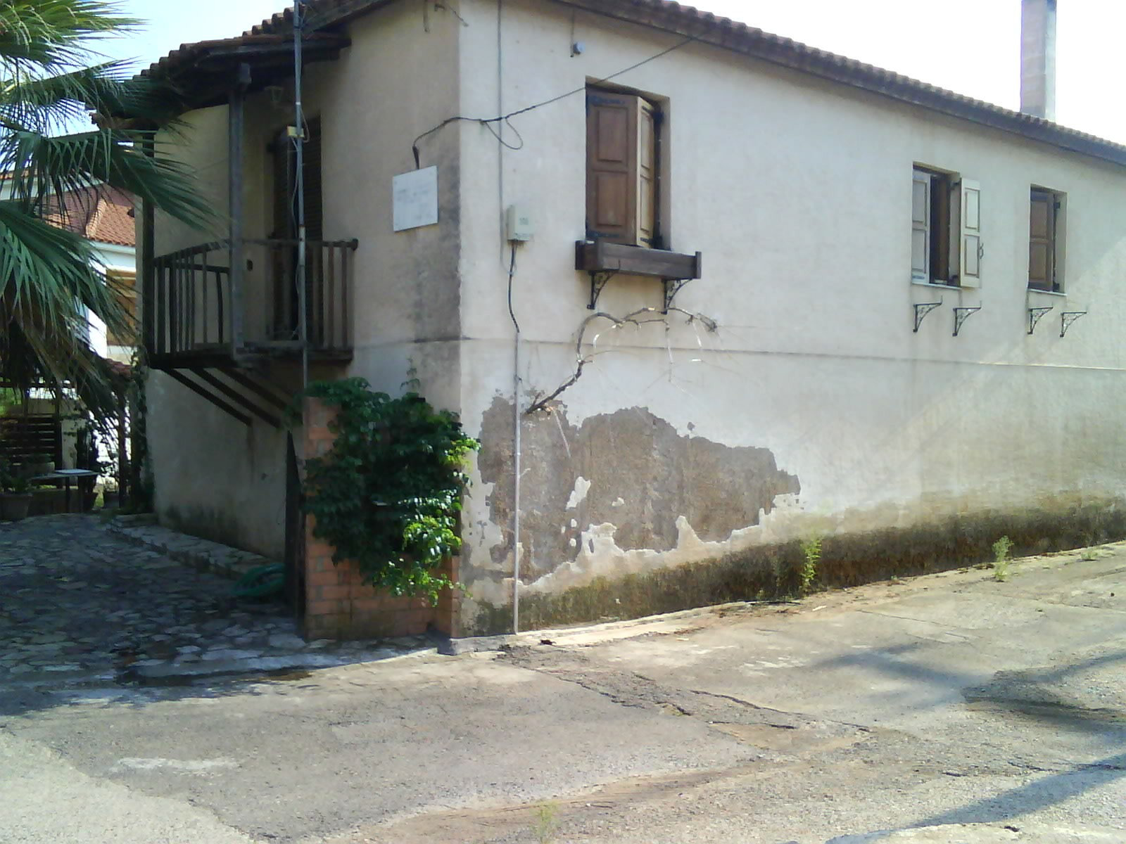 The house of Panajotis Kondylis in his hometown in Droubas. A commemorating plaque proves that this was his house.